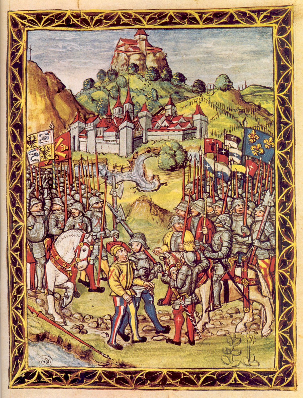 Ludovico il Moro is handed over by his Swiss mercenaries (left) to the French forces (on the right) in the standoff at Novara in 1500. The French army also had a strong contingent of Swiss mercenaries. The Swiss soldiers on both sides refused to fight each other, and finally the French king agreed to let Lodovico's Swiss troops retreat peacefully. However, the agreement did not cover Ludovico himself. His Swiss mercenaries disguised him as one of their own and tried to smuggle him away with them, but he was recognized and had to be turned over. The Swiss later tried one of their own for having betrayed Ludovico for money. Ludovico died 1508 in French custody.